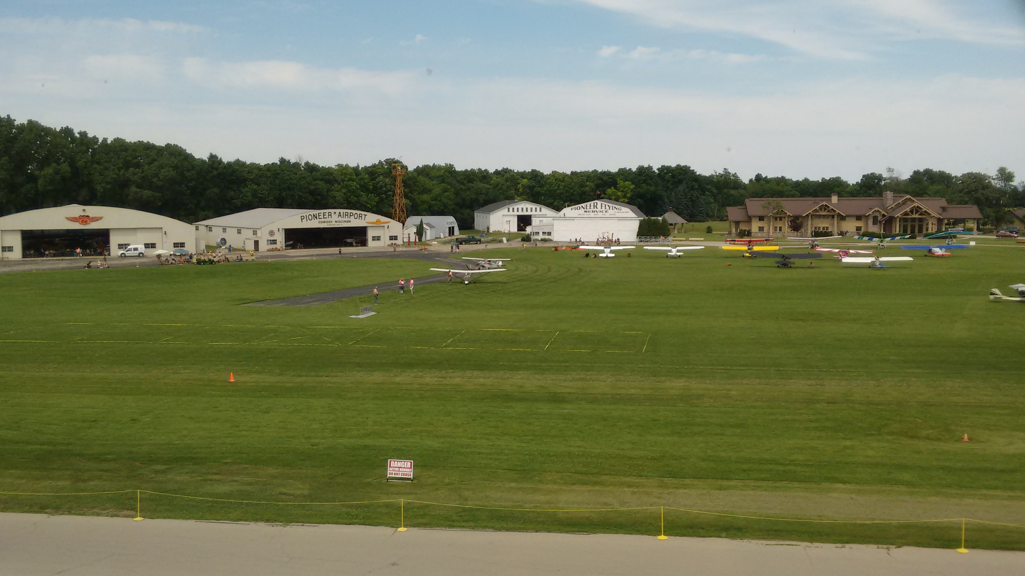 Hangers at Pioneer Airport in Oshkosh. Taken during the EAA's Ultralight day